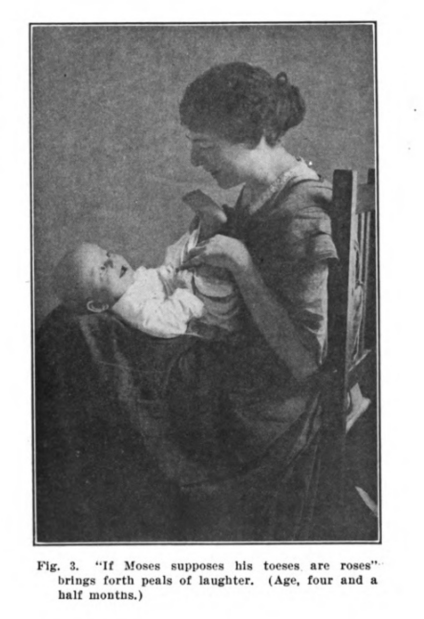 Illustration of mother playing with an infant, using the nonsense verse "Moses supposes his toeses are roses" (1913)